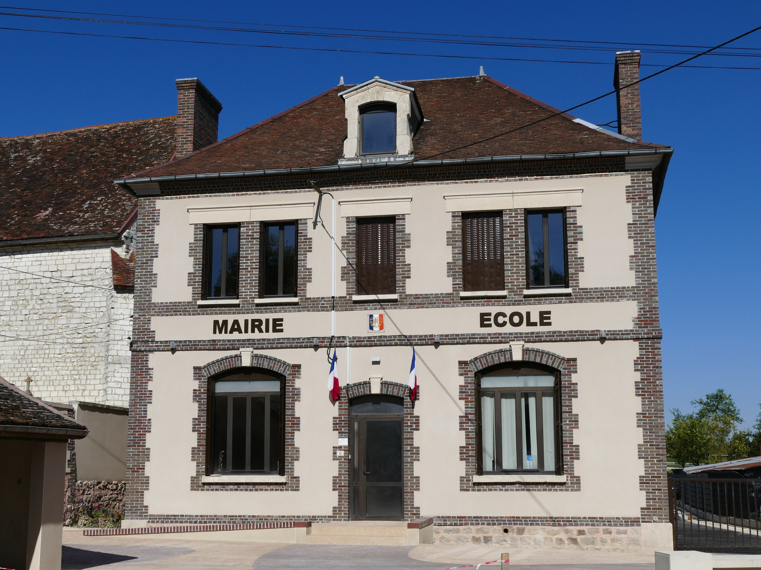 The city hall in Le Pavillon-Sainte-Julie (Aube, Champagne-Ardenne, France).